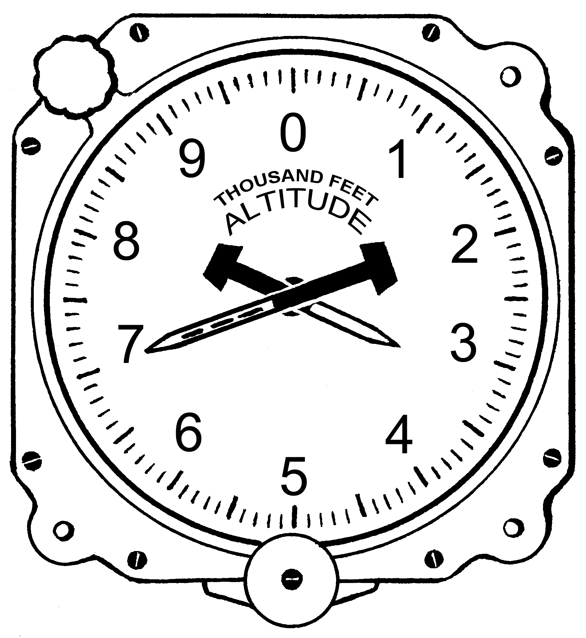 line art drawing of an altimeter.